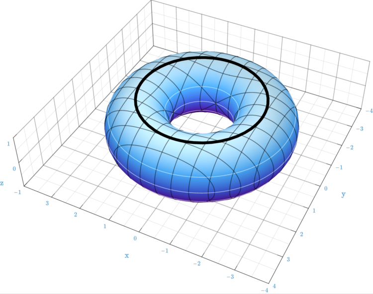 This image shows a critical loop on the torus due to a scalar function on it